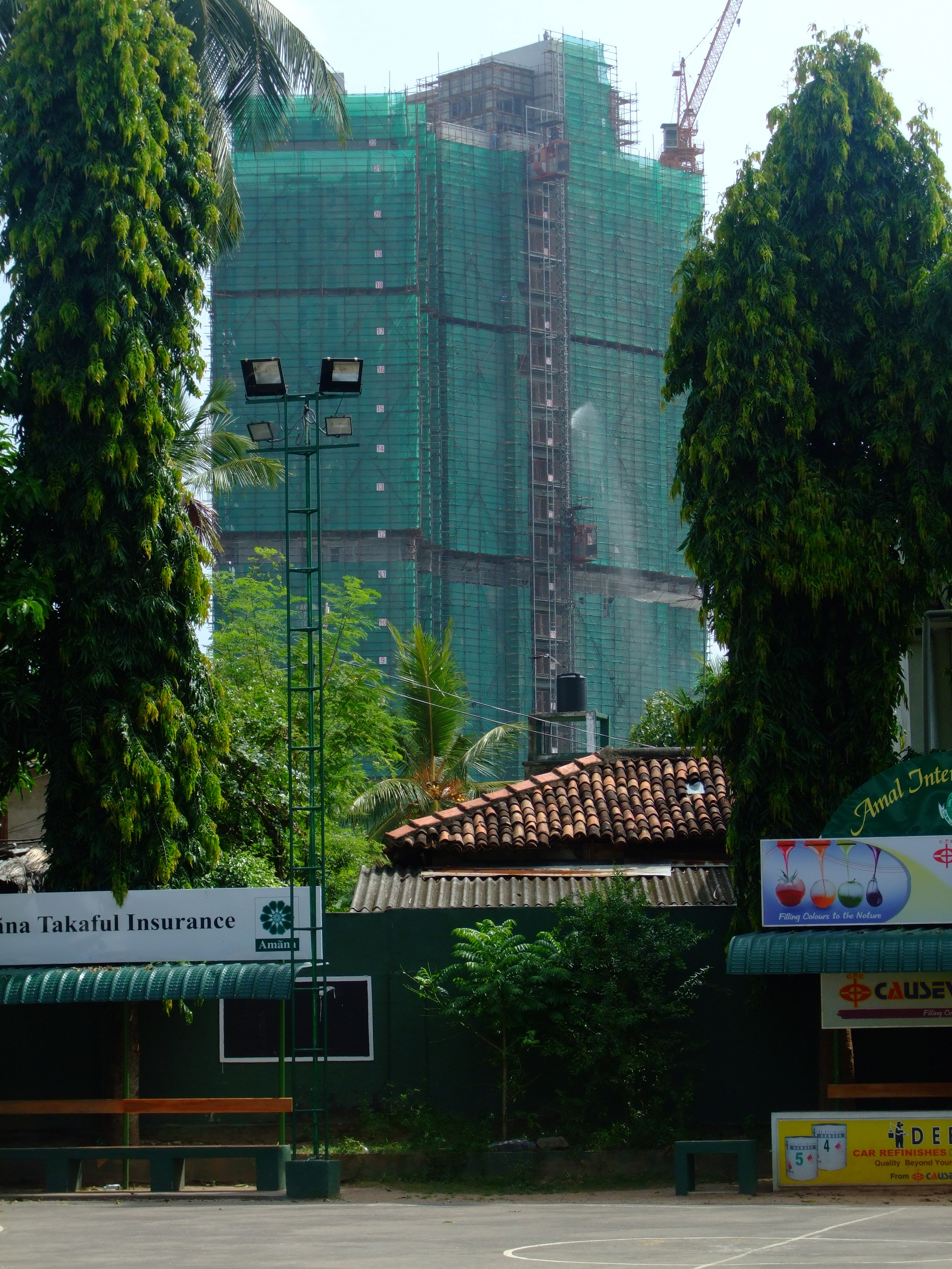 Edge-view of the construction of Phase-1 (first two towers) of the Havelock City Project. View from the basketball court of Amal International School, Sri Lanka. Facing southwest.